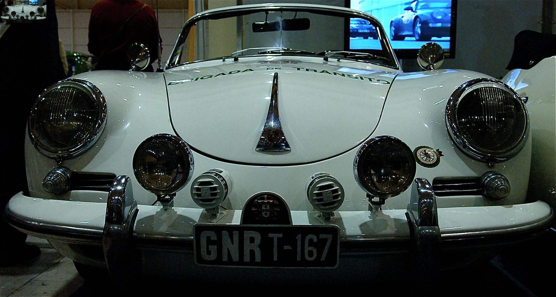 Former Porsche of portuguese transit police in Lisbon, Portugal.